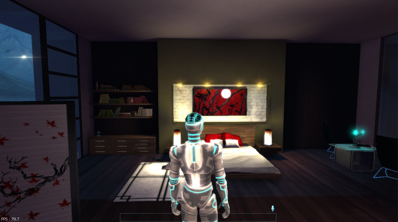 Intruder level - Jimmy - Interior 3